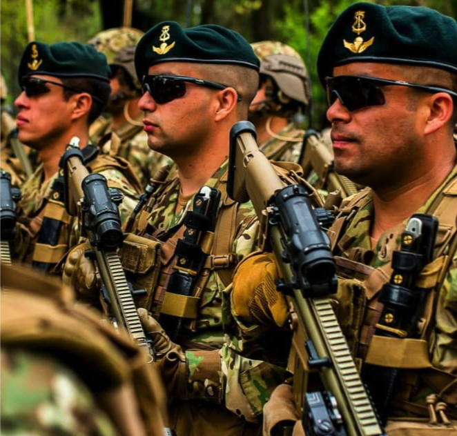 Chilean Marine Commandos (Marine Corps Forces Special Operations Command)